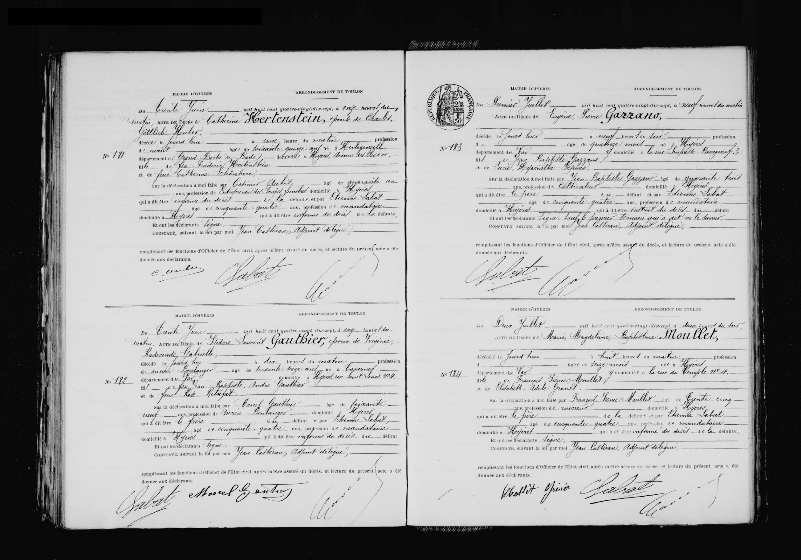 Registre des décès de l'état civil de Hyères